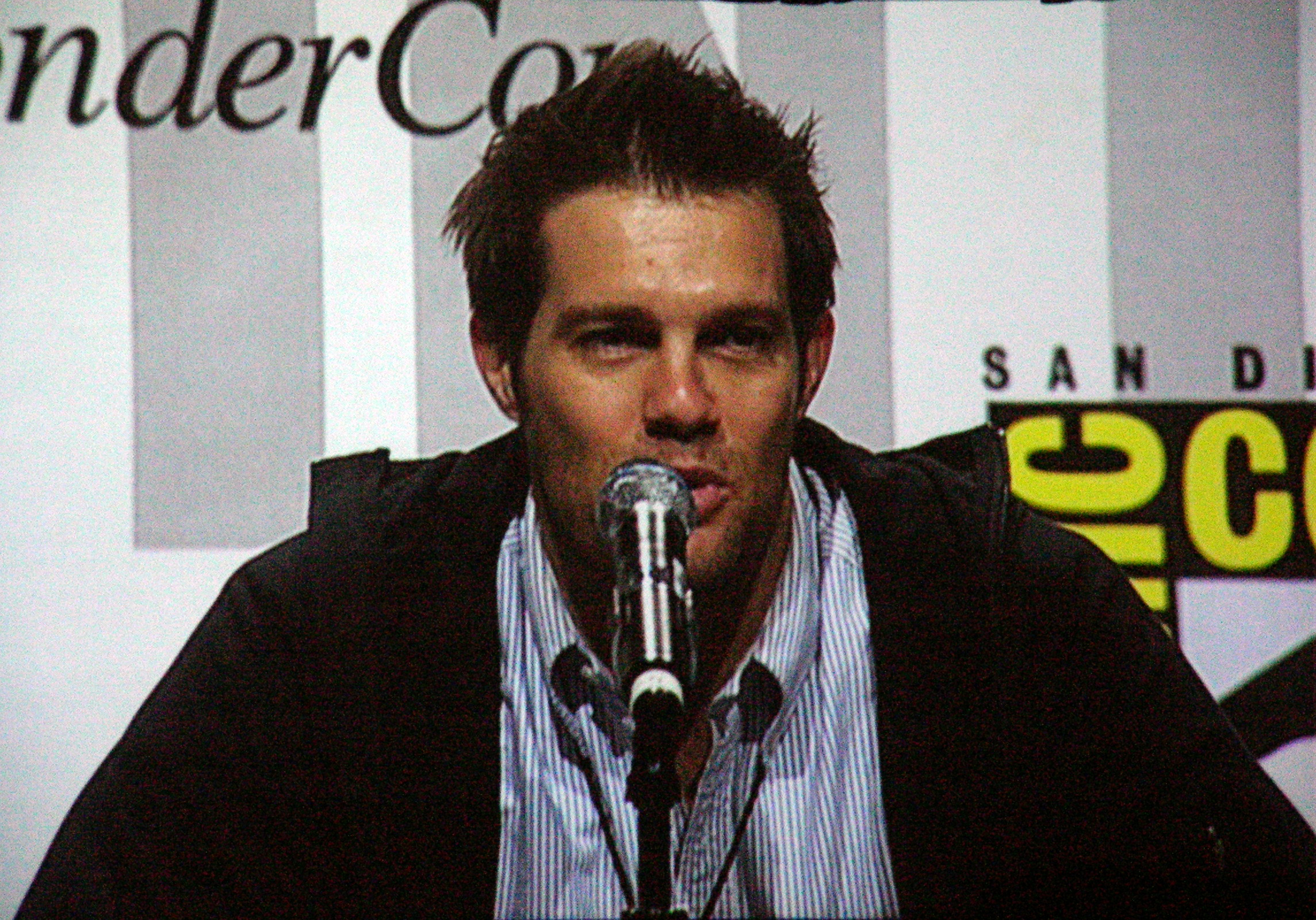 Actor Geoff Stults participating in a panel on the TV series Happy Town at WonderCon 2010.